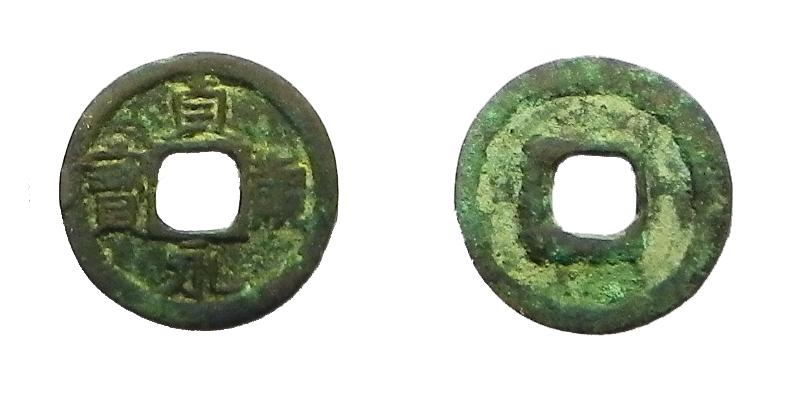 Jogan-eiho coin